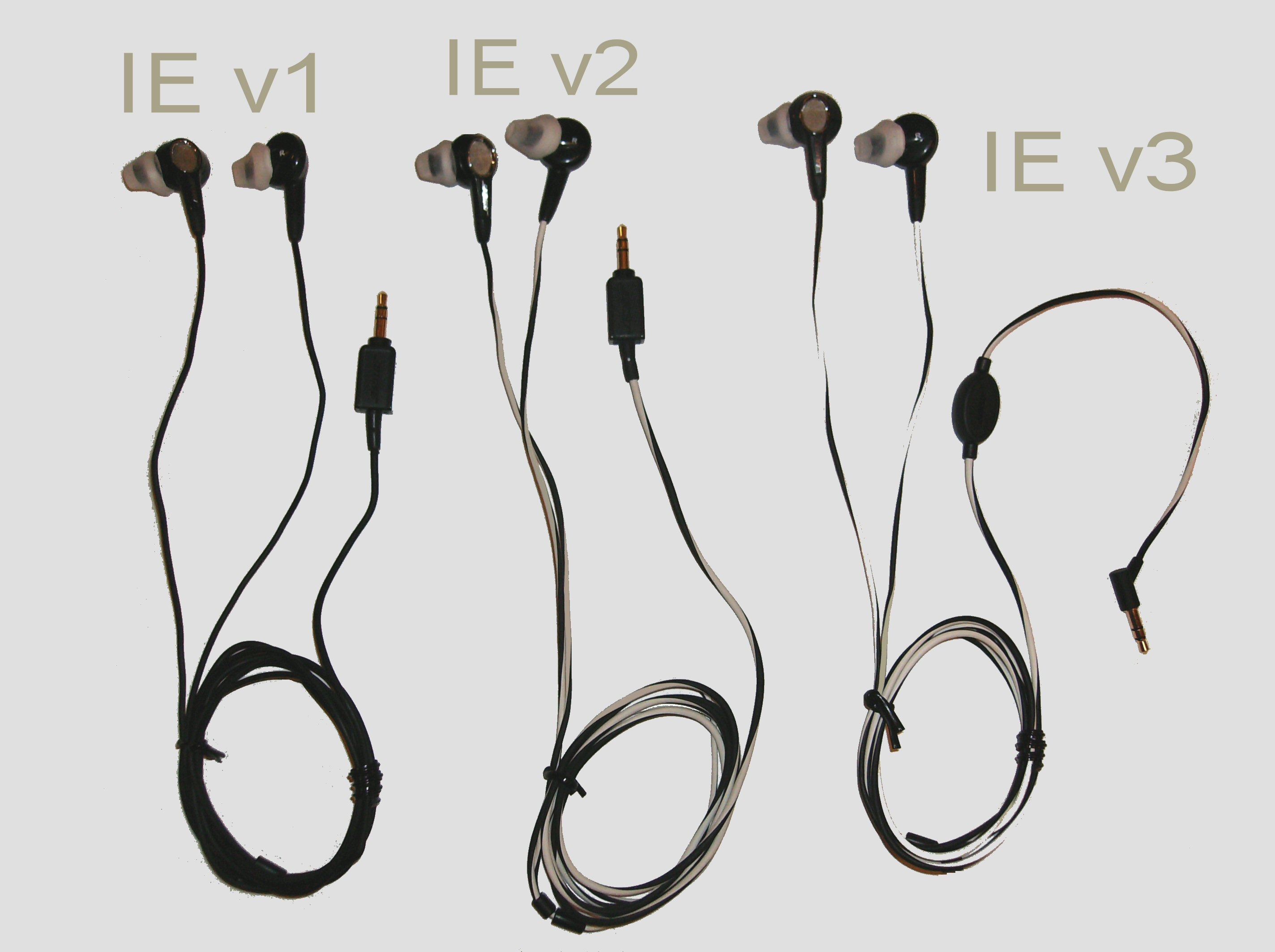 3 different version of the Bose In-Ears. Version 1 = Black CordVersion 2 = Black & White Cord, & redesigned ear tipsVersion 3 = Black & White Cord, another redesign of the ear tips, redesigned where the ear tips attach to the headphones, iPhone compatible headphone connection, & moved circuit board up the cable.